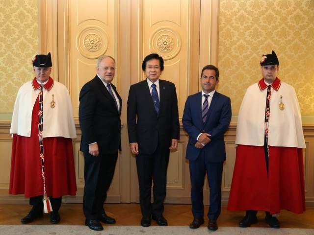 Etsurō Honda, Ambassador to Switzerland, presented his diplomatic credentials to Johann Schneider-Ammann, President of the Confederation, with Walter Thurnherr, Federal Chancellor, at the Federal Palace in Bern Municipality, Bern-Mittelland District, Bern Canton on June 23, 2016.